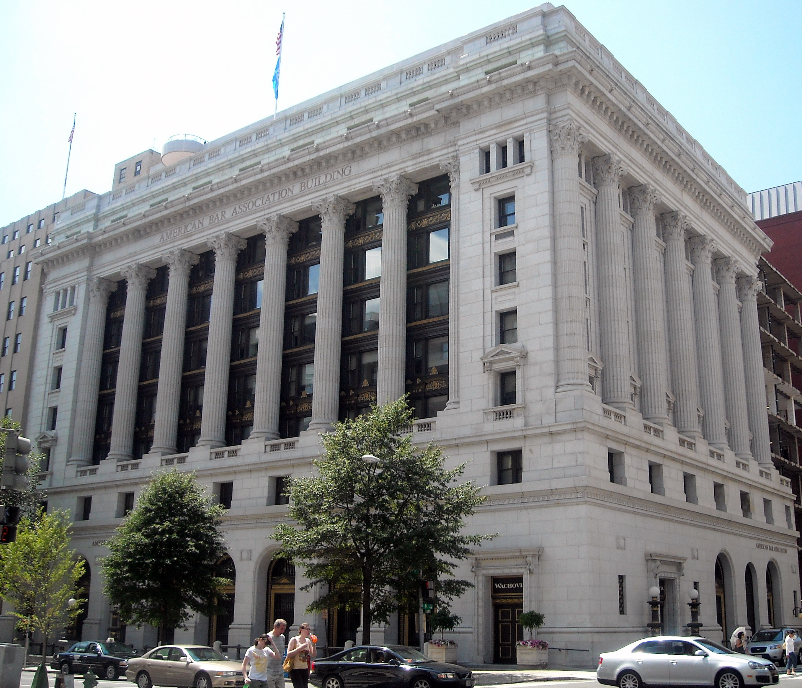 Union Trust Building at 740 15th Street, NW in Washington, D.C. The building housed the DC office of American Bar Association until 2013. It is listed on the National Register of Historic Places and is a contributing property to the 15th Street Financial Historic District.